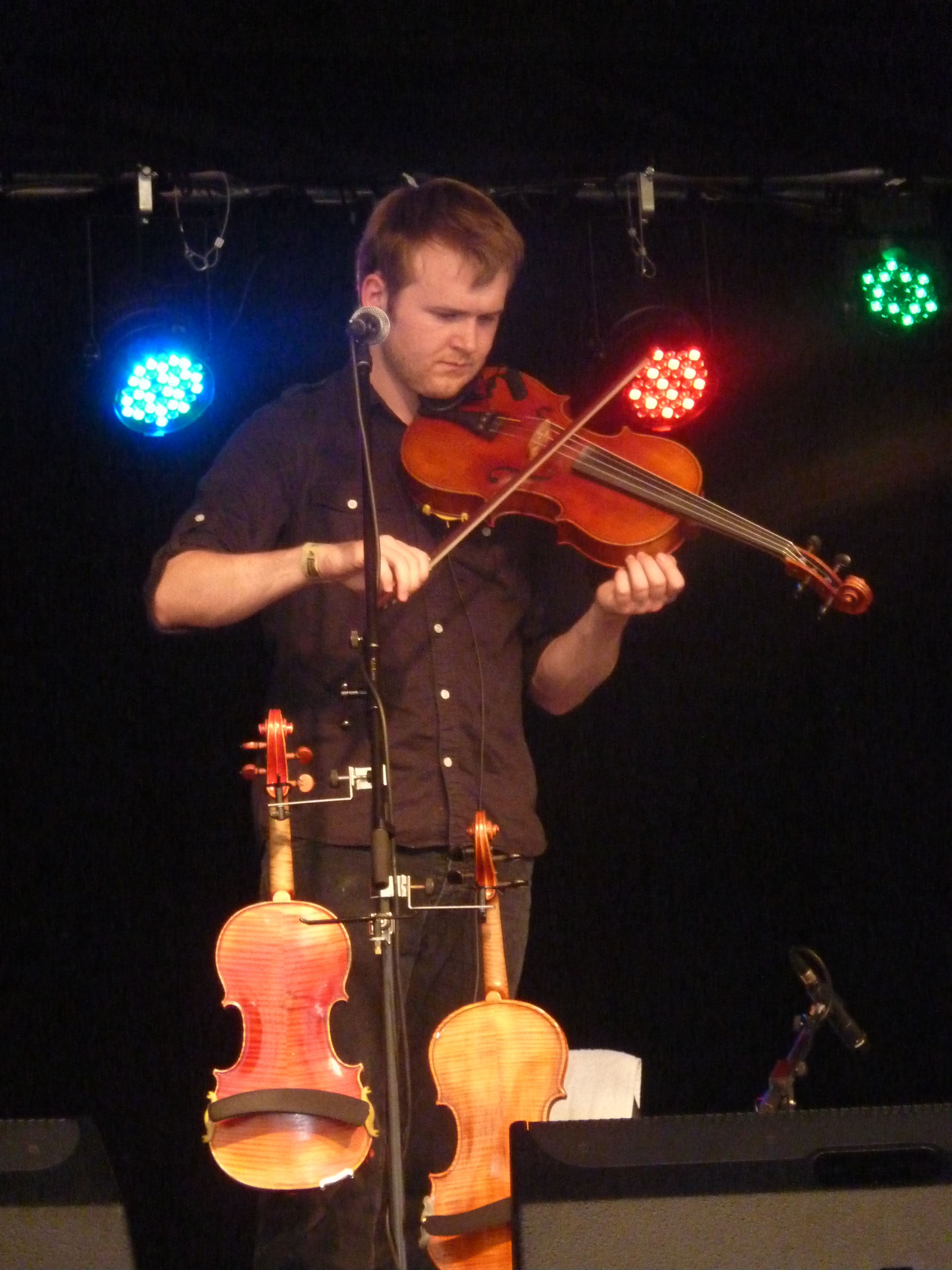 I have seen the future of English folk music ....